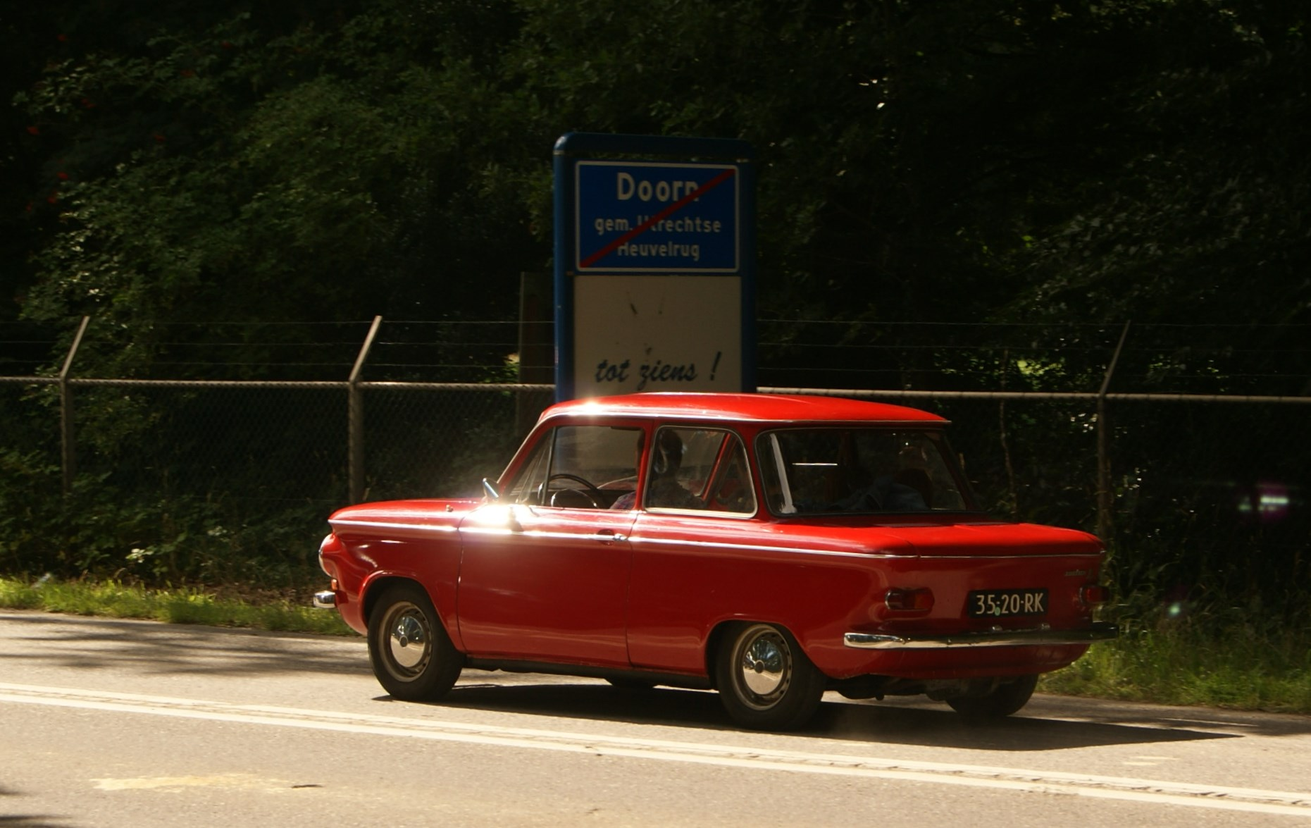 35-20-RK From one owner since 1991.